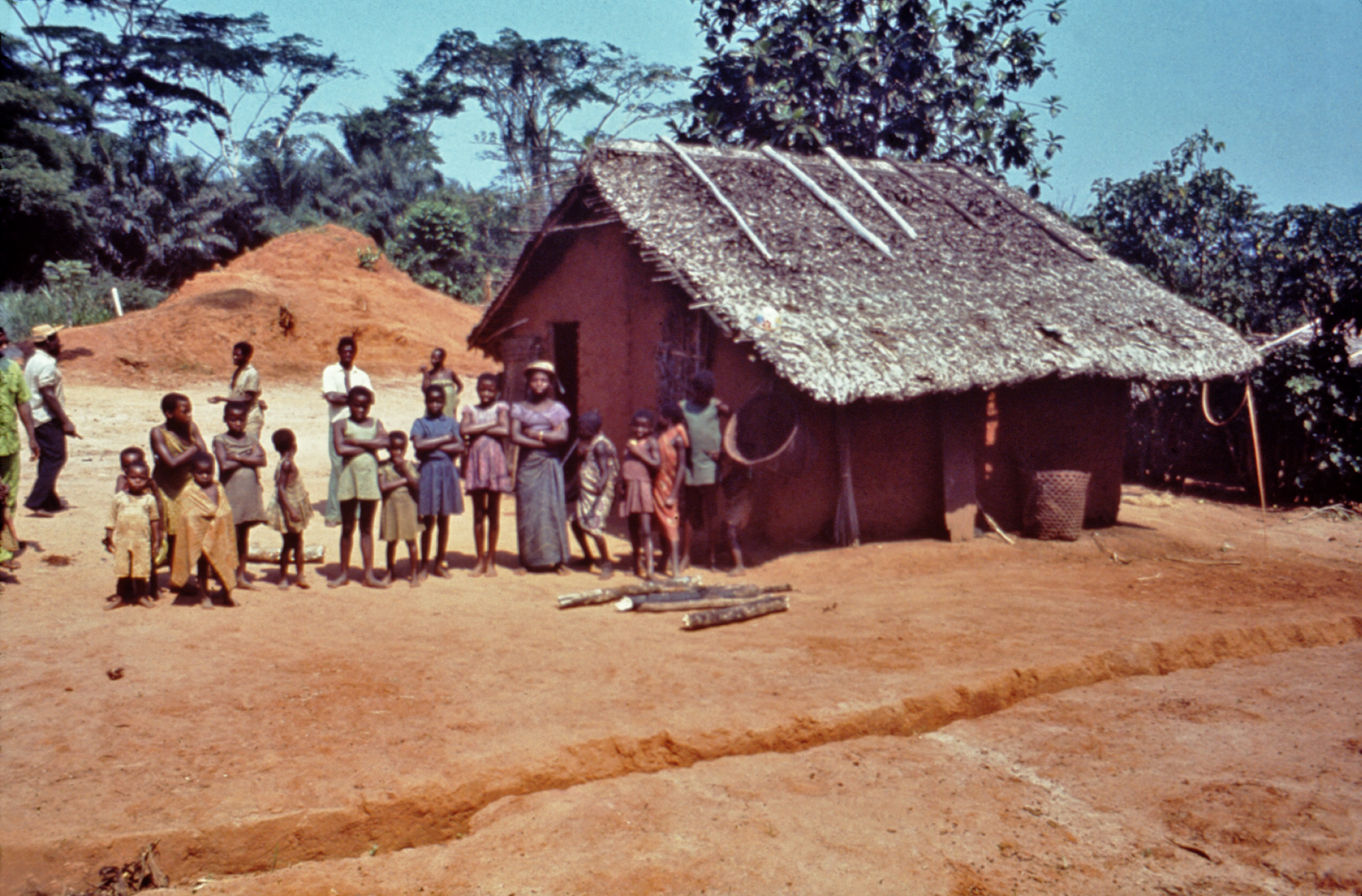 "This photograph of a Yambuku, Zaire (now Democratic Republic of the Congo) community, showed residents who were being examined by CDC EIS officers during the Ebola outbreak of 1976. Ebola virus infections were first recognized in 1976, when simultaneous, but separate outbreaks of human disease caused by two distinct virus subtypes, erupted in northern Zaire and southern Sudan, and resulted in hundreds of deaths. The Zaire subtype of Ebola virus had a higher case-fatality, nearly 90%, while the Sudan subtype had a case-fatality rate of approximately 50%."